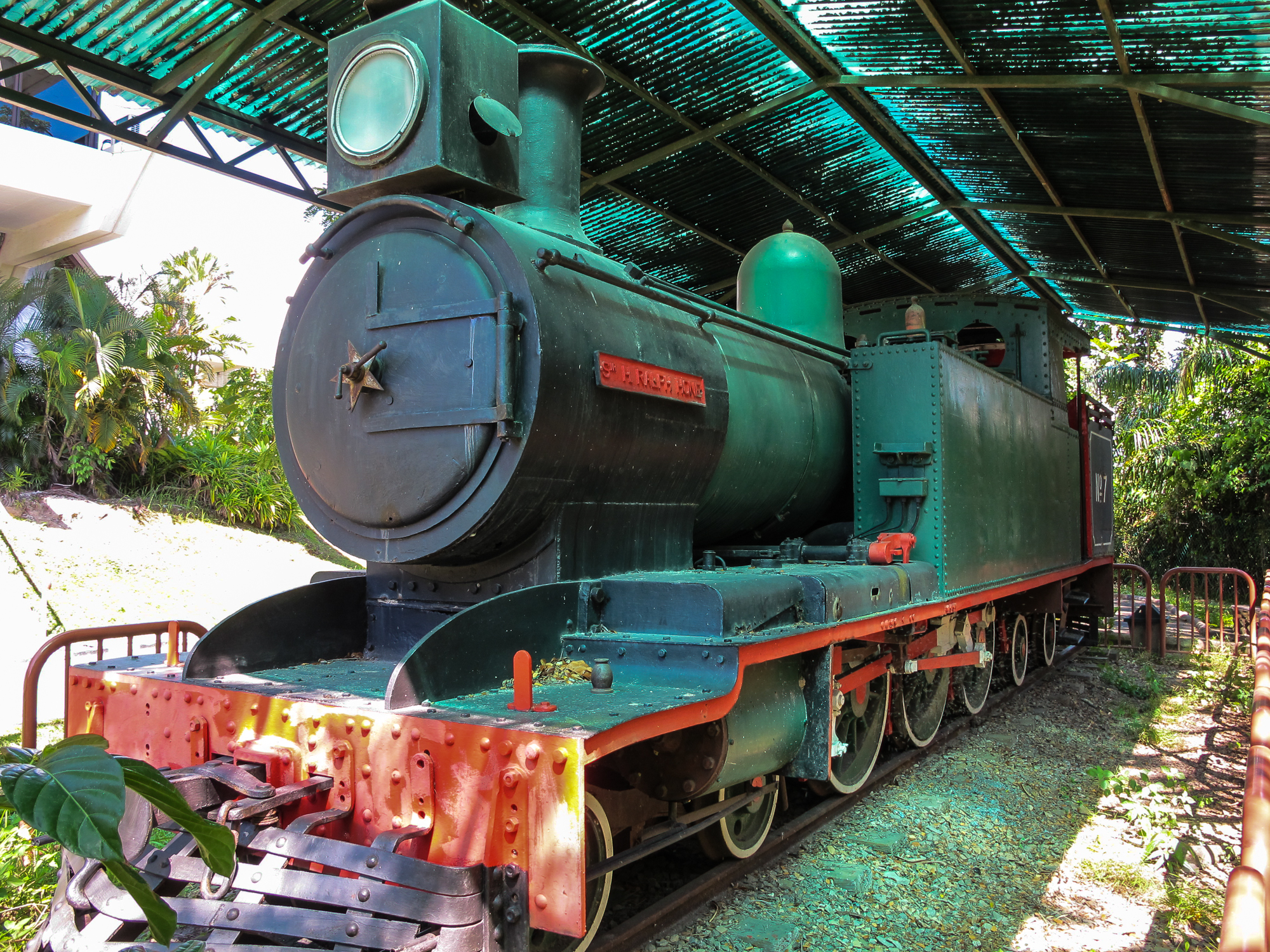 Locomotive Sir Ralph Hone" of the North Borneo Railways.Made by Hunslet Co Ltd, Leeds, England.Operated 1912-1957 for passenger trains and 1958 - 1968 for goods trains. Today exhibited at the Sabah State Museum in Kota Kinabalu.